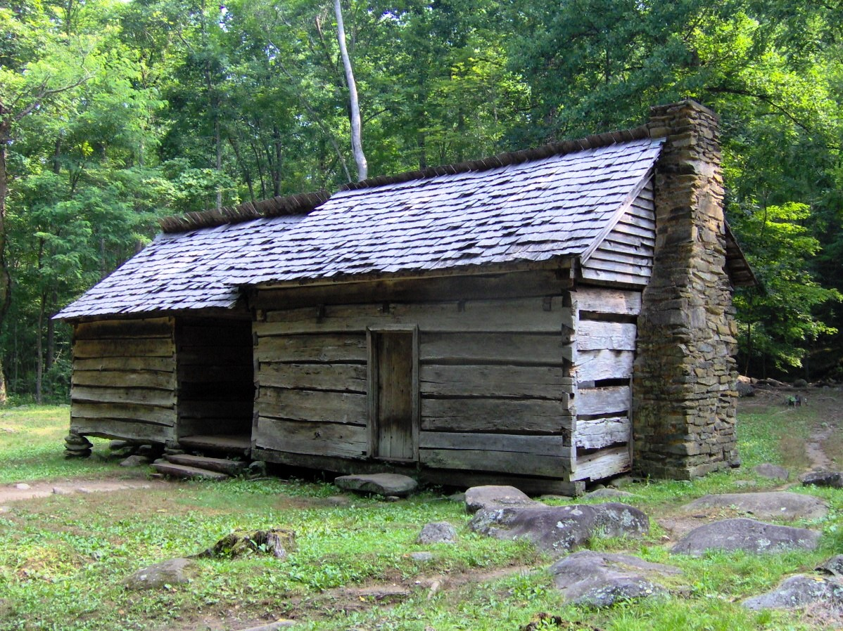 The Ephraim Bales Cabin in the Roaring Fork Historic District, GSMNP, in East Tennessee.